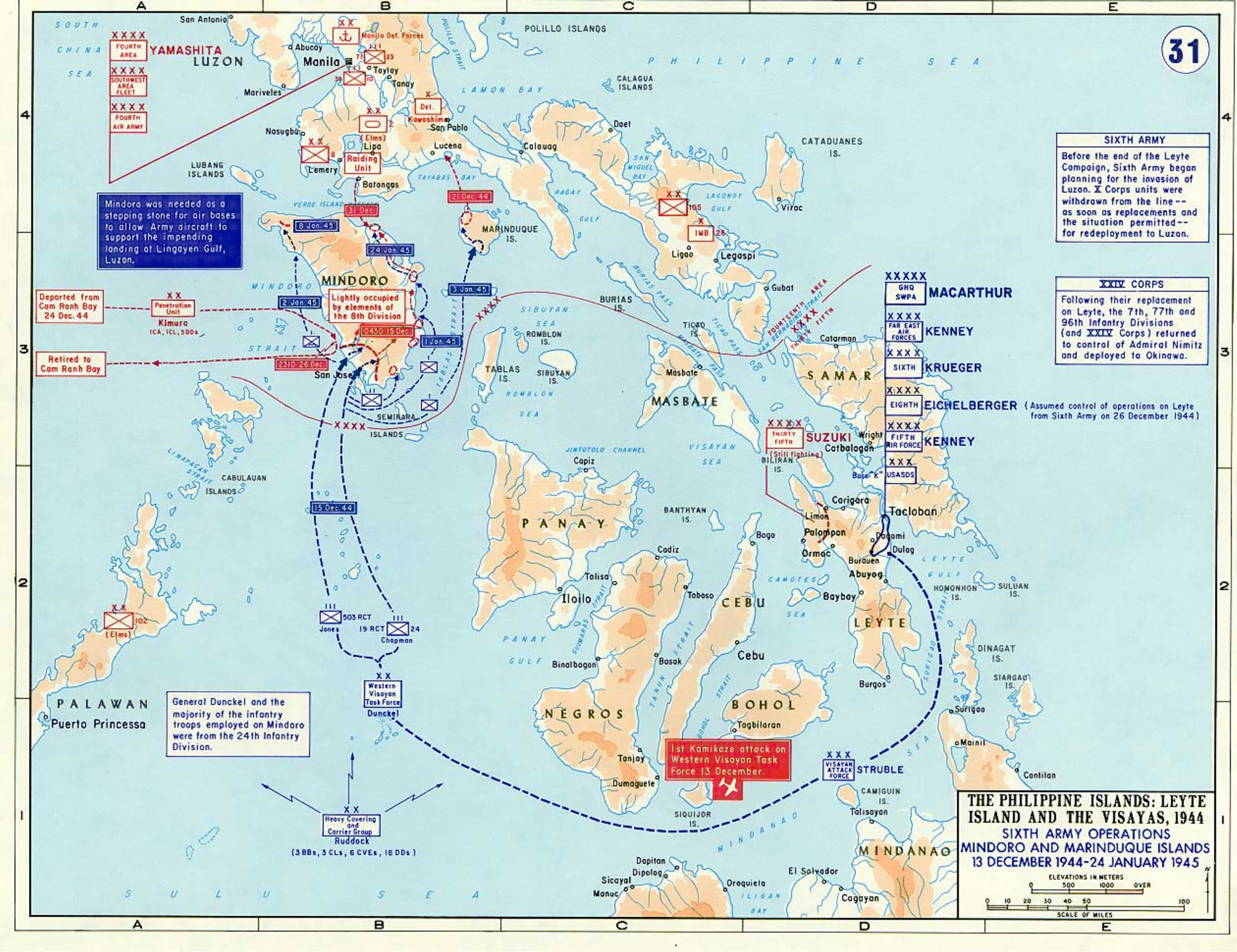 THE PHILIPPINE ISLANDS: LEYTE AND THE VISAYAS, 1944 - Sixth Army Operations Mindoro And Marinduque Islands - 13 December 19444-24 January 1945